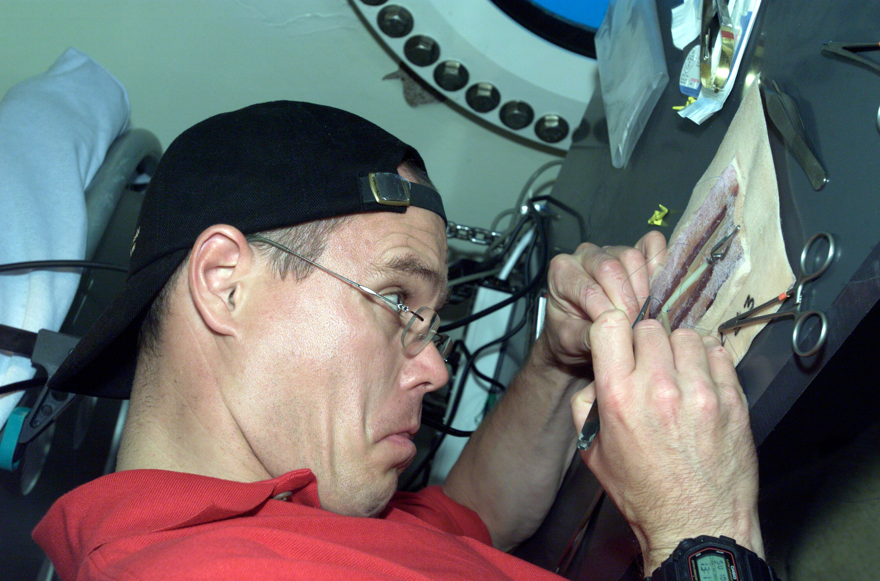 JSC2004-E-46623 (18 October 2004) --- NEEMO-7 aquanaut Dr. Craig McKinley of the Centre for Minimal Access Surgery at St. Joseph’s Healthcare Hamilton, Ontario, practices a suturing technique in the National Oceanic and Atmospheric Administration’s (NOAA) Aquarius Underwater Laboratory, located off the coast of Key Largo, Florida, for the NASA Extreme Environment Mission Operations (NEEMO) project.